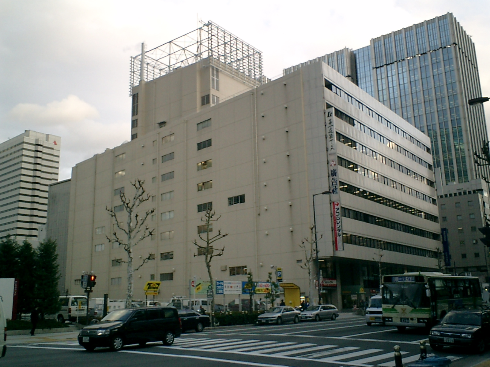 Dōjima Grand Building